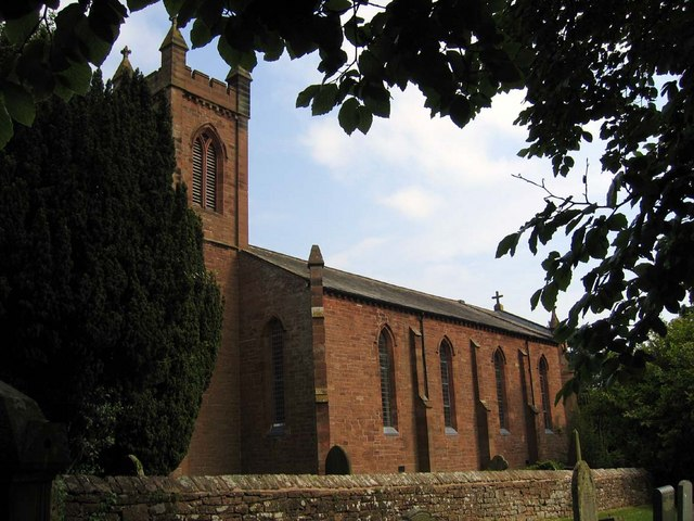 Parish church of St John the Baptist, Upperby, Carlisle, seen from the south